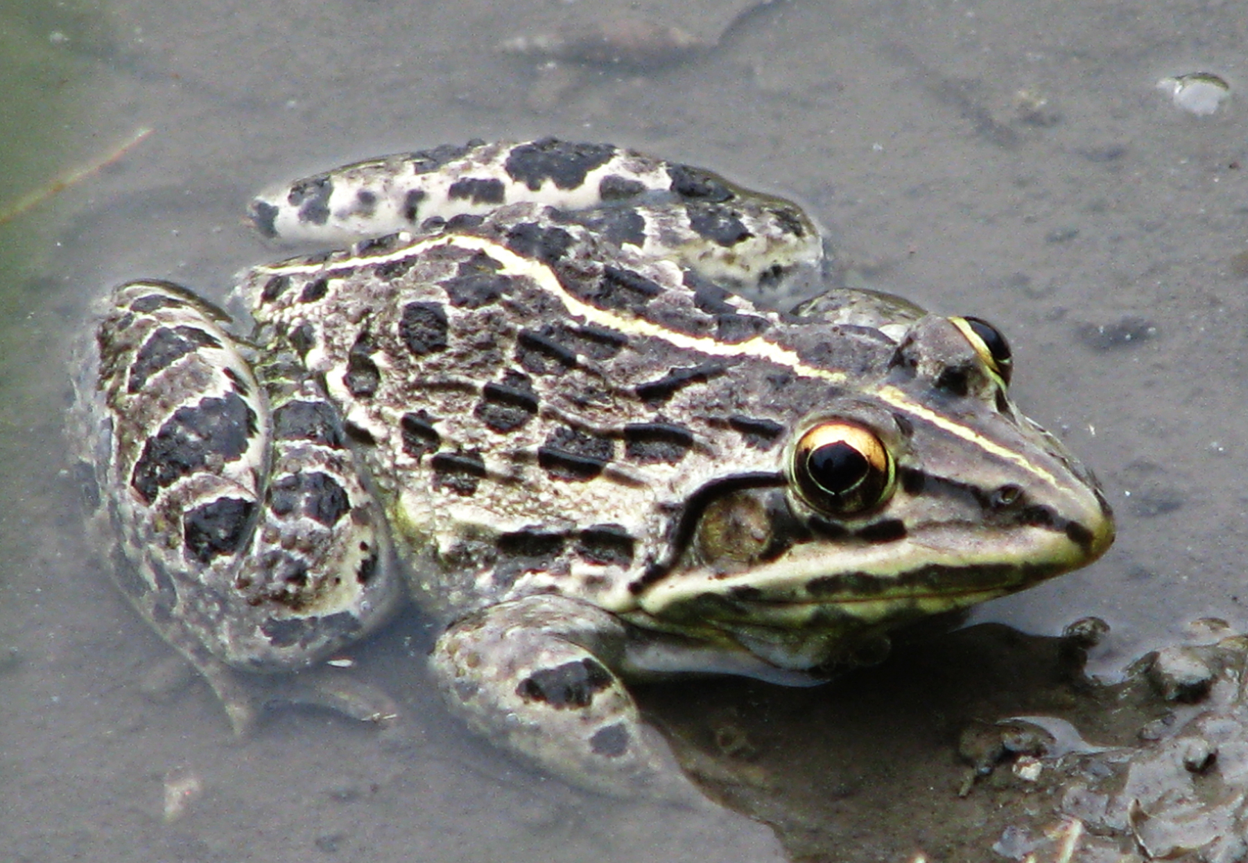 Bull Frog, Indian Bull Frog, Hoplobatrachus tigerinus [Rana tigerina]